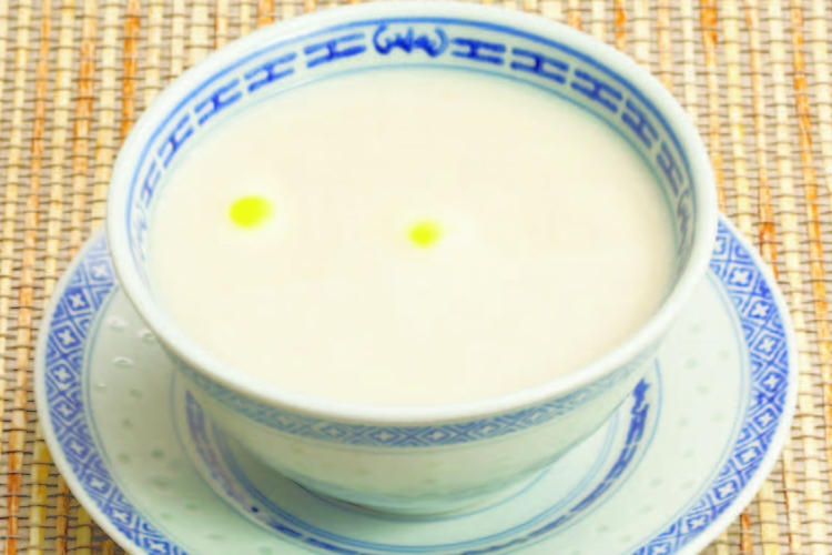 Tofu skin sweet soup